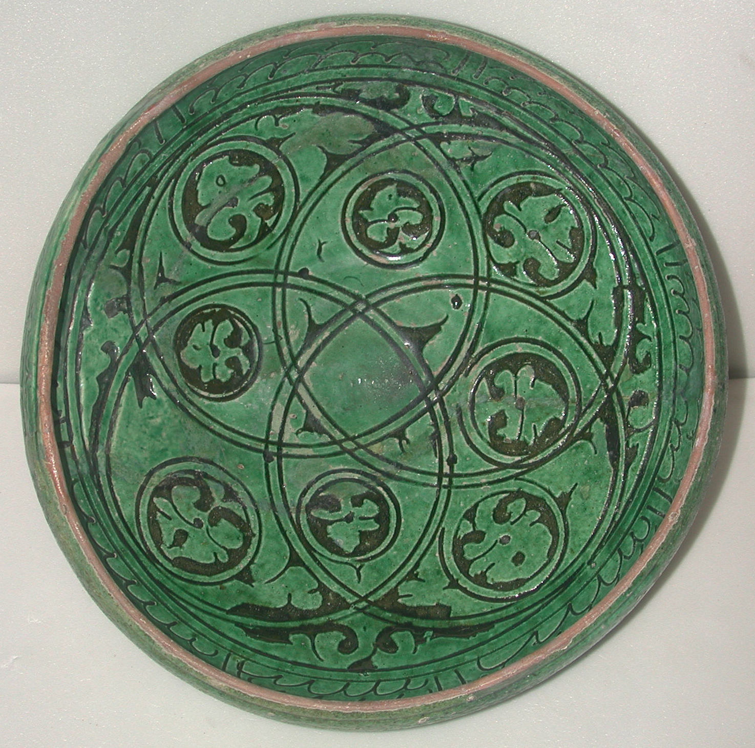 Bowl; Ceramics